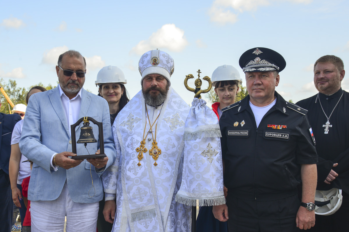 Installation of bells in the belfry of The Main Temple of the Russian Armed Forces in Moscow.